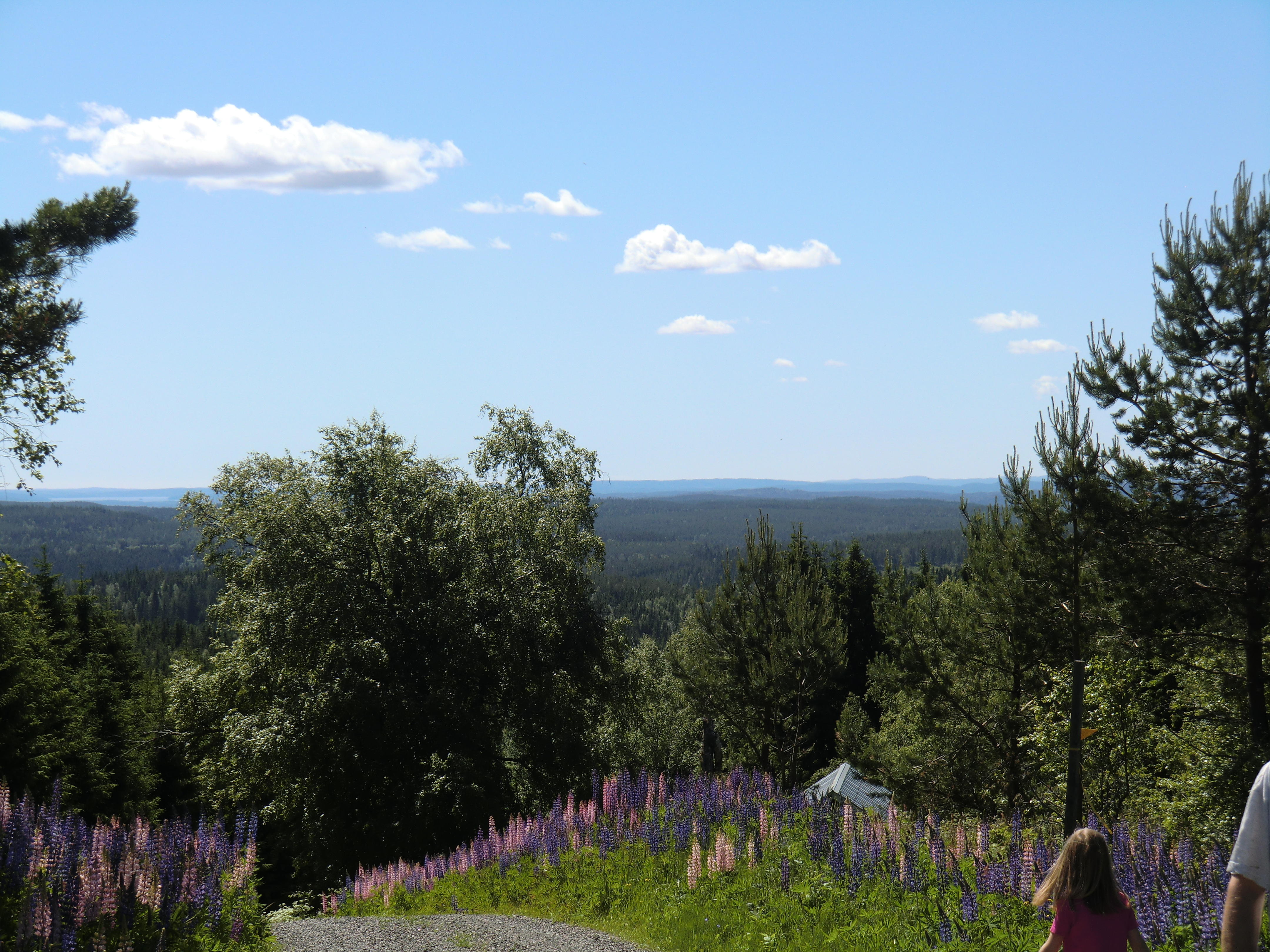 View southwest from Blåbärskullen in Gräsmark, Värmland, Sweden. 425 meters above sea level.